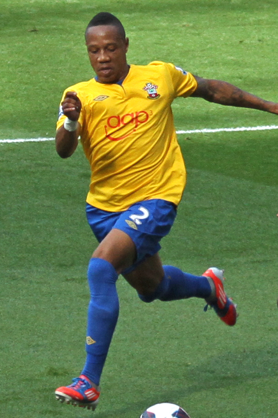 Gervinho defended by Nathaniel Clyne